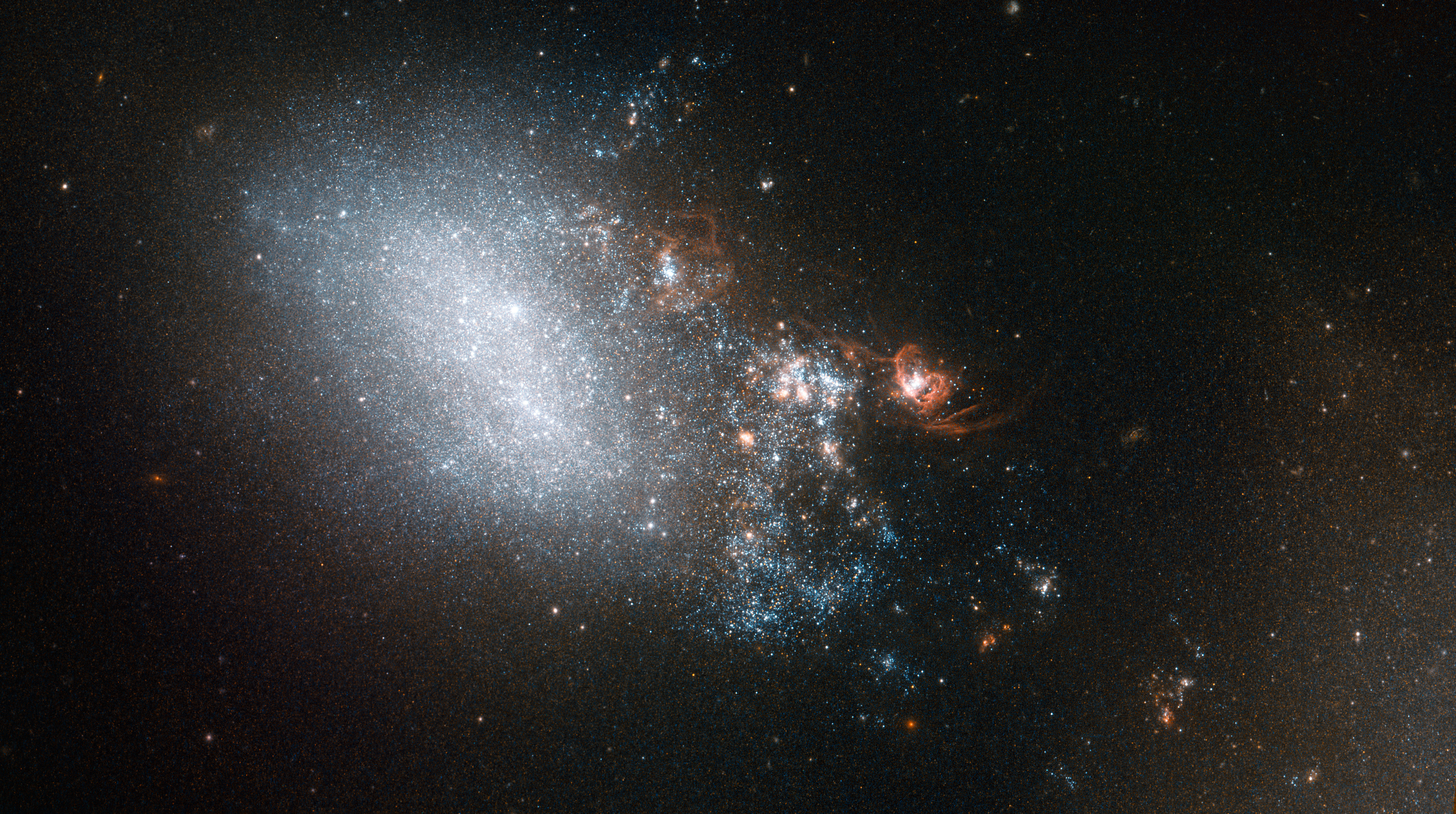 This image shows galaxy NGC 4485 in the constellation of Canes Venatici (The Hunting Dogs). The galaxy is irregular in shape, but it hasn’t always been so. Part of NGC 4485 has been dragged towards a second galaxy, named NGC 4490 — which lies out of frame to the bottom right of this image. Between them, these two galaxies make up a galaxy pair called Arp 269. Their interactions have warped them both, turning them from spiral galaxies into irregular ones. NGC 4485 is the smaller galaxy in this pair, which provides a fantastic real-world example for astronomers to compare to their computer models of galactic collisions. The most intense interaction between these two galaxies is all but over; they have made their closest approach and are now separating. The trail of bright stars and knotty orange clumps that we see here extending out from NGC 4485 is all that connects them — a trail that spans some 24 000 light-years. Many of the stars in this connecting trail could never have existed without the galaxies’ fleeting romance. When galaxies interact hydrogen gas is shared between them, triggering intense bursts of star formation. The orange knots of light in this image are examples of such regions, clouded with gas and dust. A version of this image was entered into the Hubble’s Hidden Treasures image processing competition by contestant Kathy van Pelt, and won sixth prize in the “basic image searching” category.